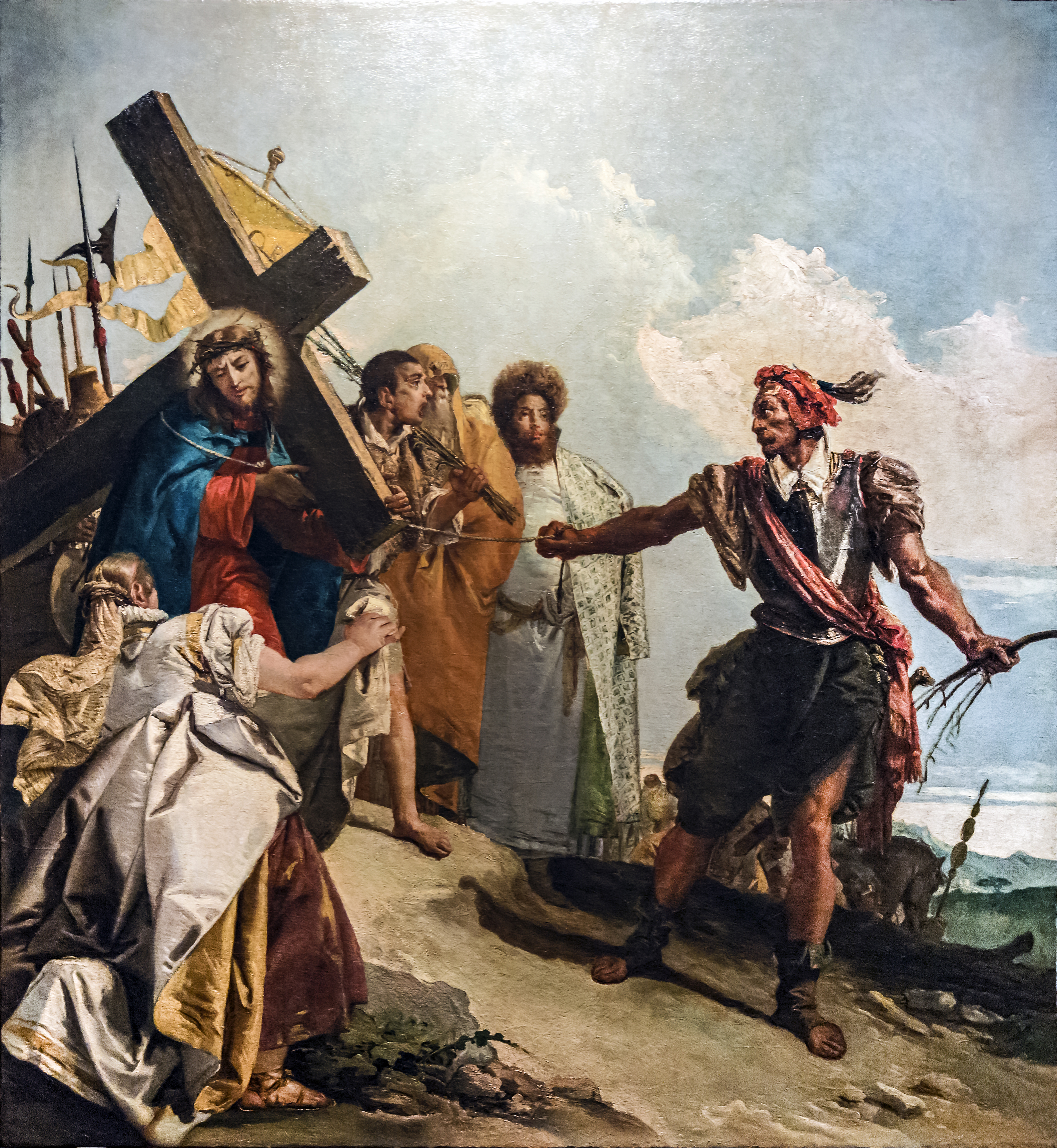 San Polo (church) - Oratory of the Crucifix - VIA CRUCIS VI - Veronica wipes the face of Jesus by Giandomenico Tiepolo. Oil on canvas (1745 -1749).